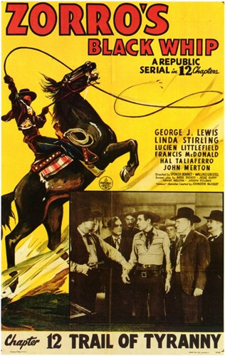 Poster for the 1944 film Zorro's Black Whip.